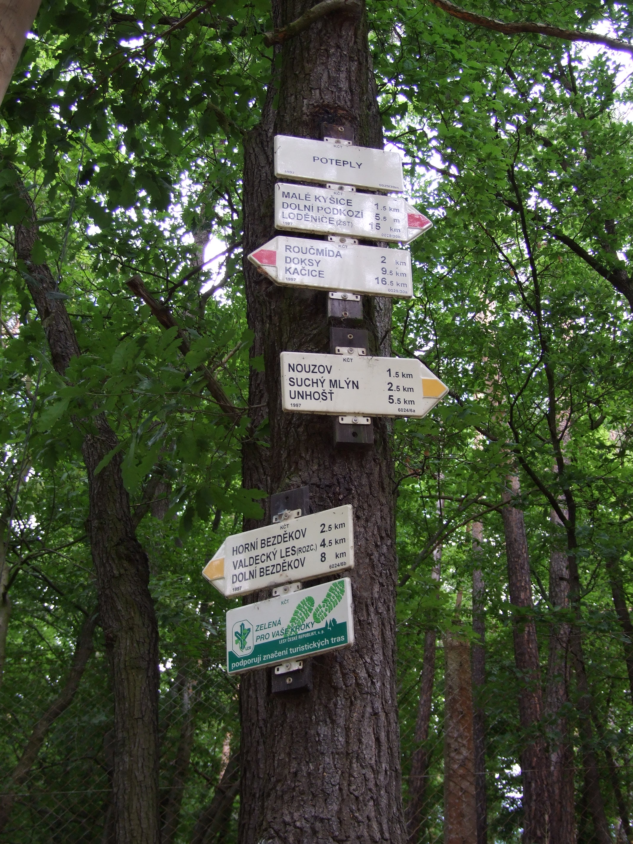 Poteply, part of Malé Kyšice village in Kladno district, CZhelp